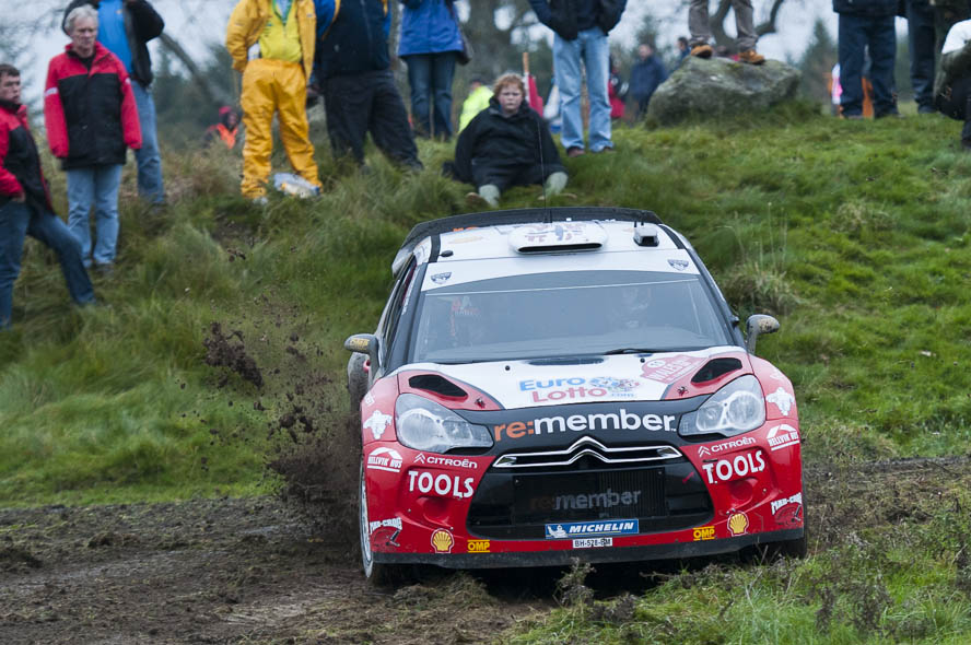 Wales Rally GB 2011 Chris Patterson,Citroen DS3 WRC,Motorsport,Petter Solberg,Petter Solberg WRT,Rallye,Wales Rally GB